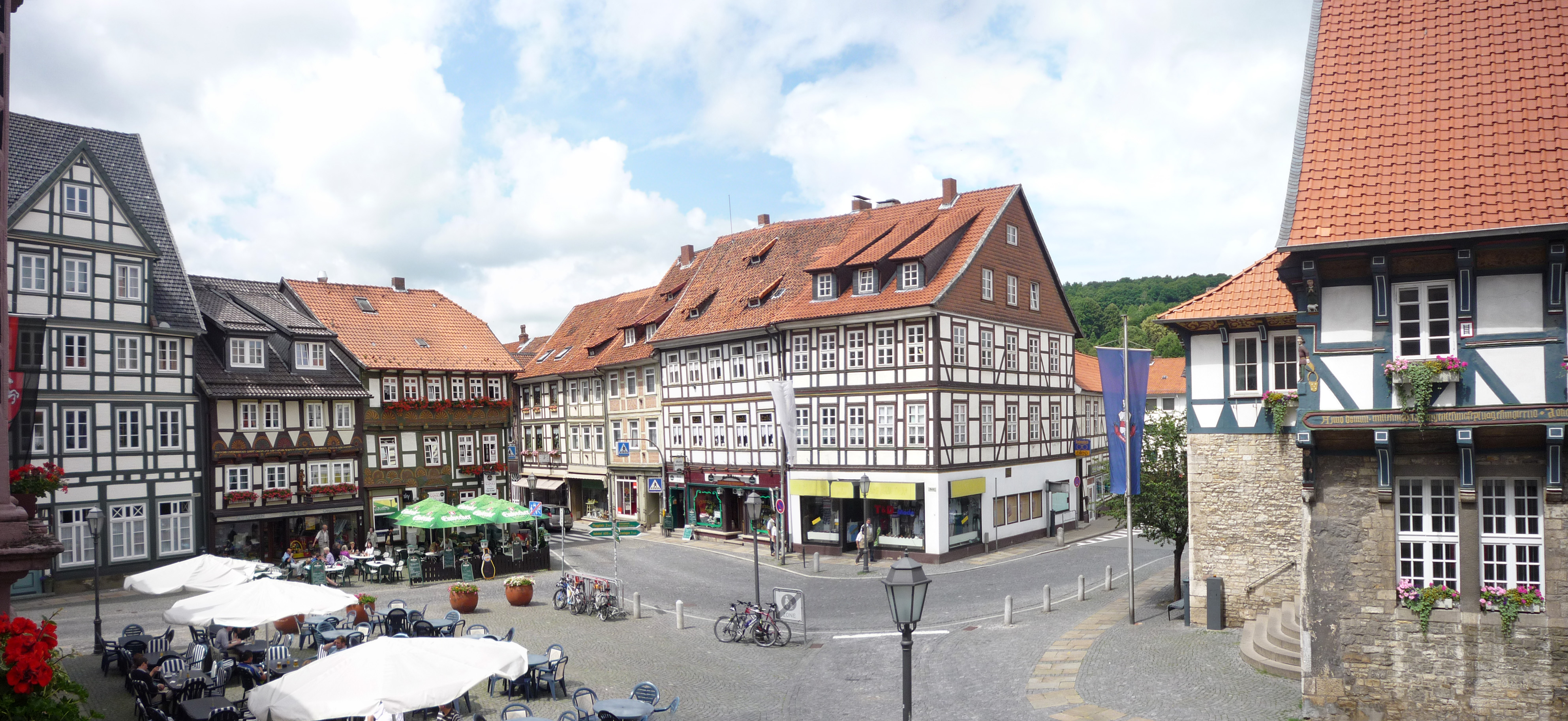 Market place in Bad Gandersheim, Lower Saxony in Germany